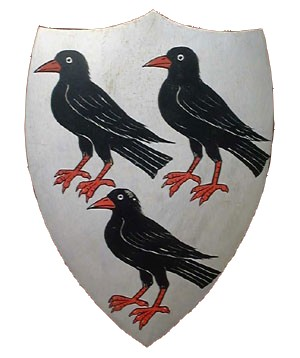 Coat of arms of Thomas Becket downloaded from [1]